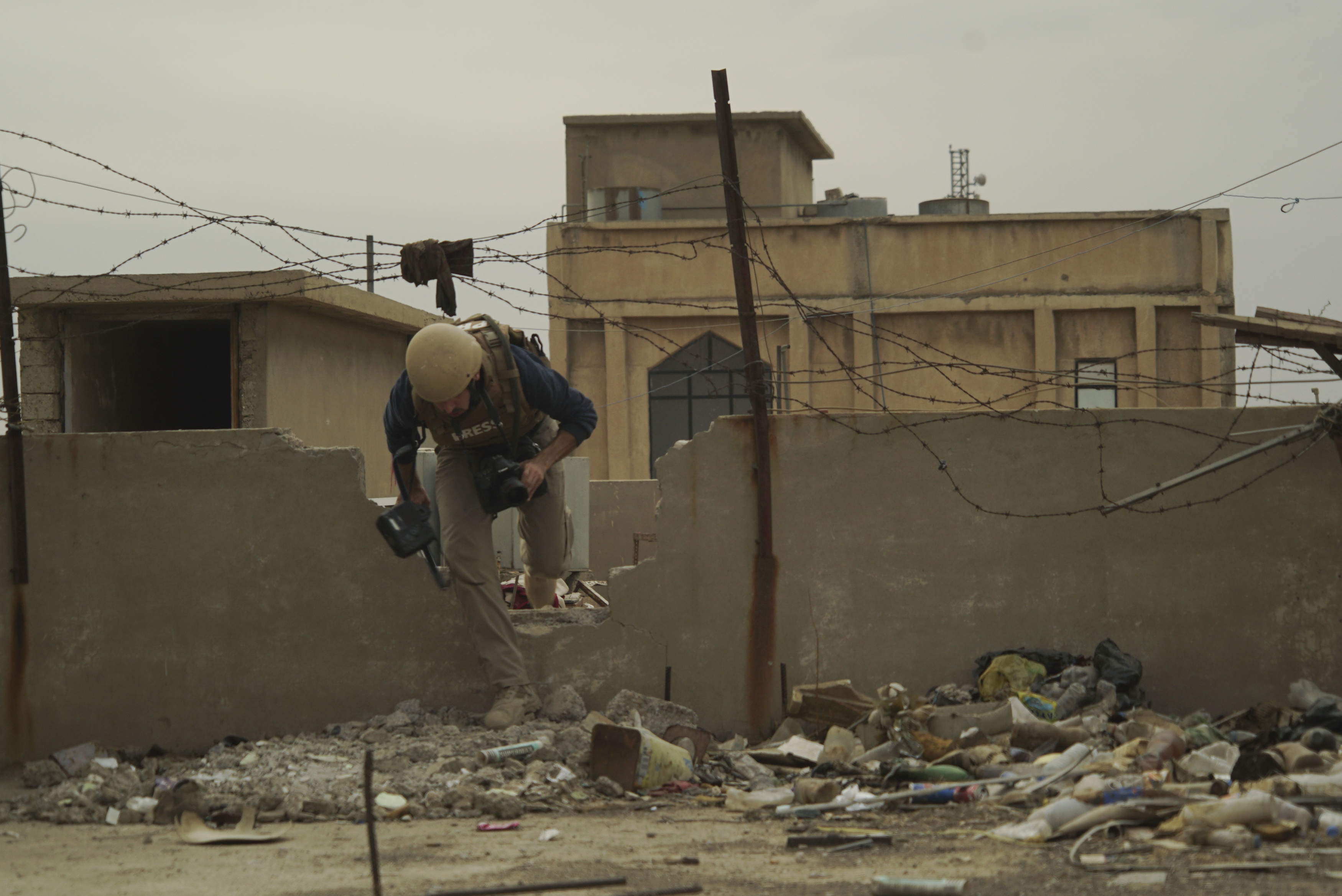 Reporter captured in Mosul, Northern Iraq, Western Asia. 15 November, 2016.